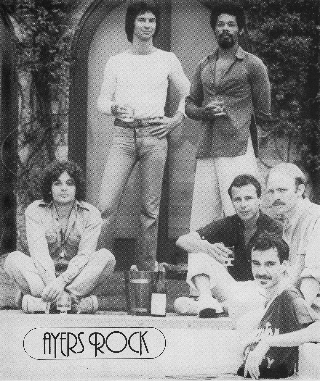 Australian jazz fusion band Ayers Rock